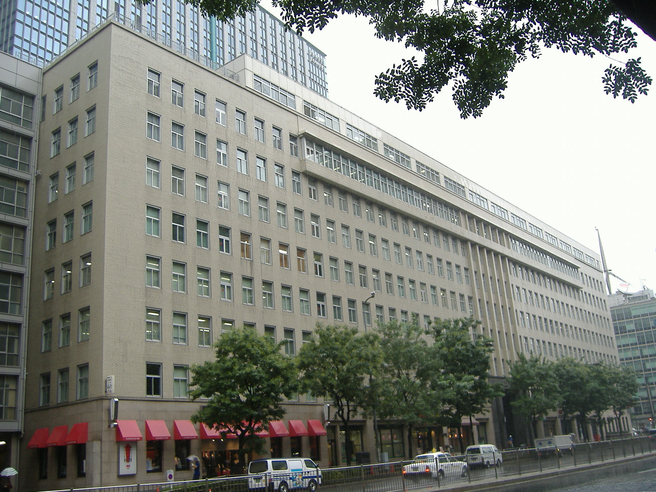 Dai1 Tekko Building (Tokyo, Japan)